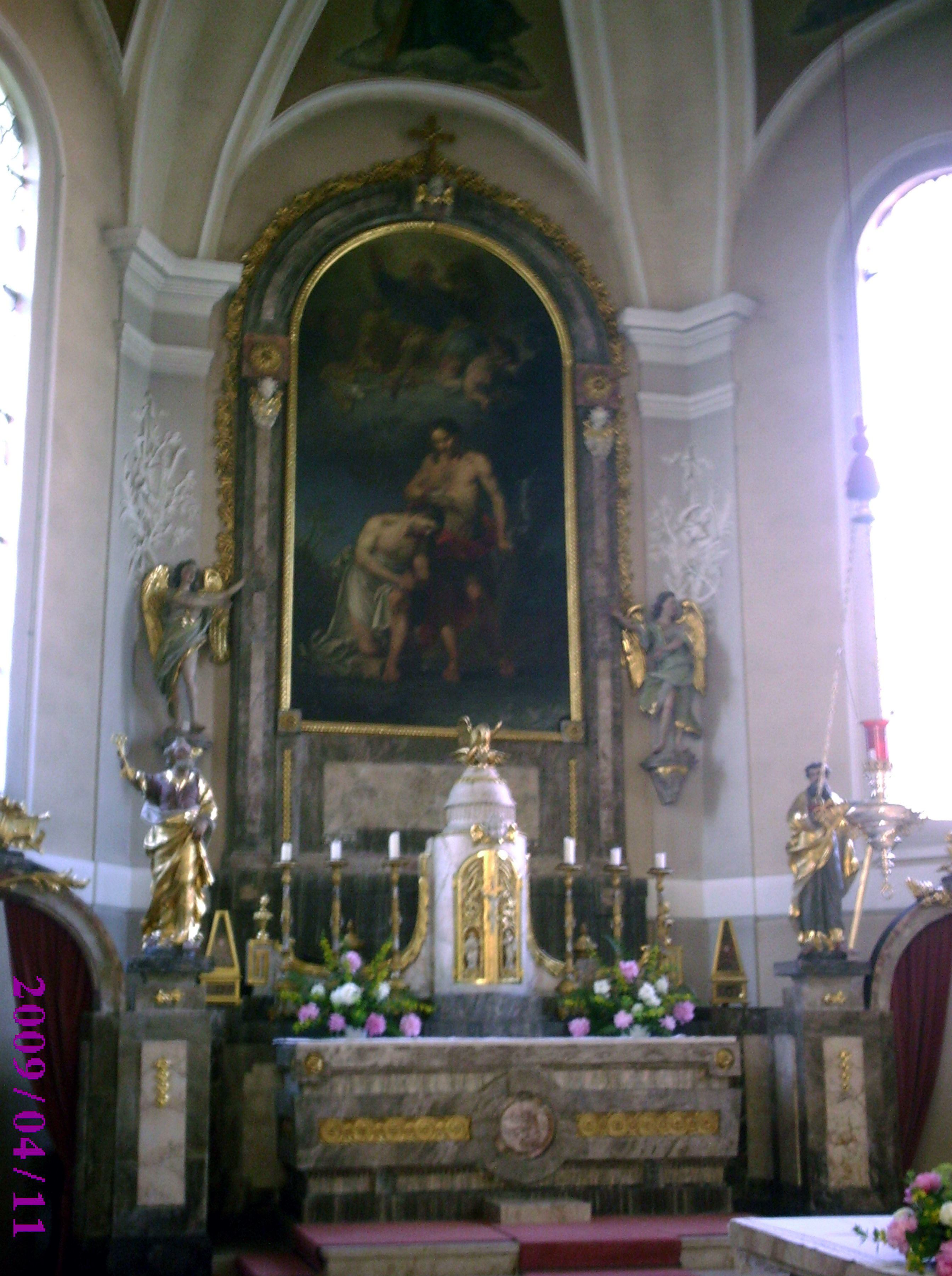 Januarius Zick, Johannes baptizing Christus in the Jordan